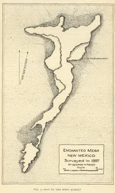 A map of Enchanted Mesa (Katciano, Mesa Encantada), near Acoma Pueblo, Cibola County, New Mexico.